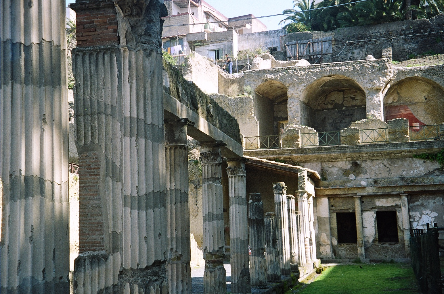 Herculaneum archeological site, Italy